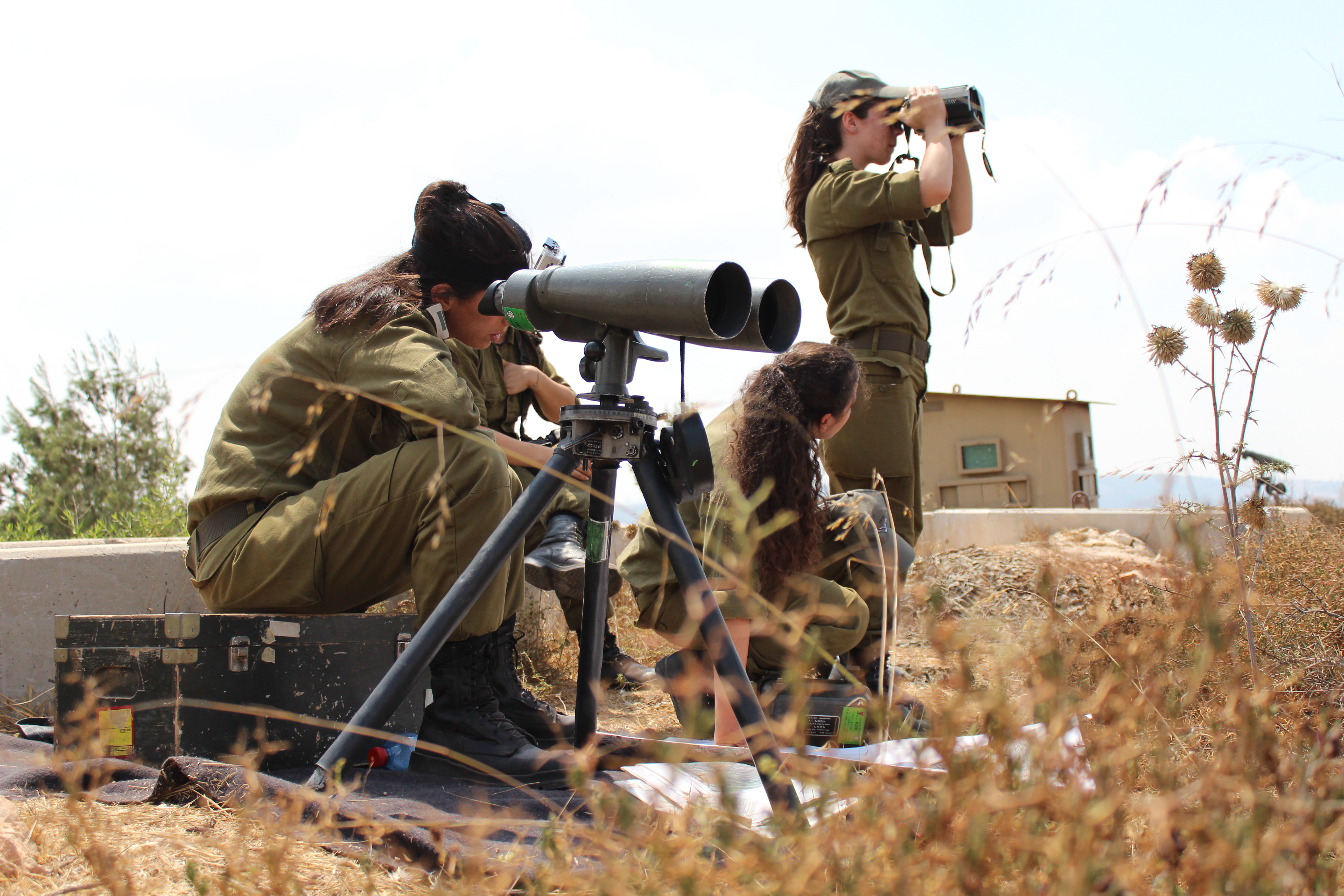 August 29, 2012 The female dominated observers unit conducted a company exercise which included shooting practice, physical fitness tests and binocular practice. Photo: Zev Marmorstein, IDF Spokesperson's Unit The Israel Defense Forces Facebook • blog • Twitter